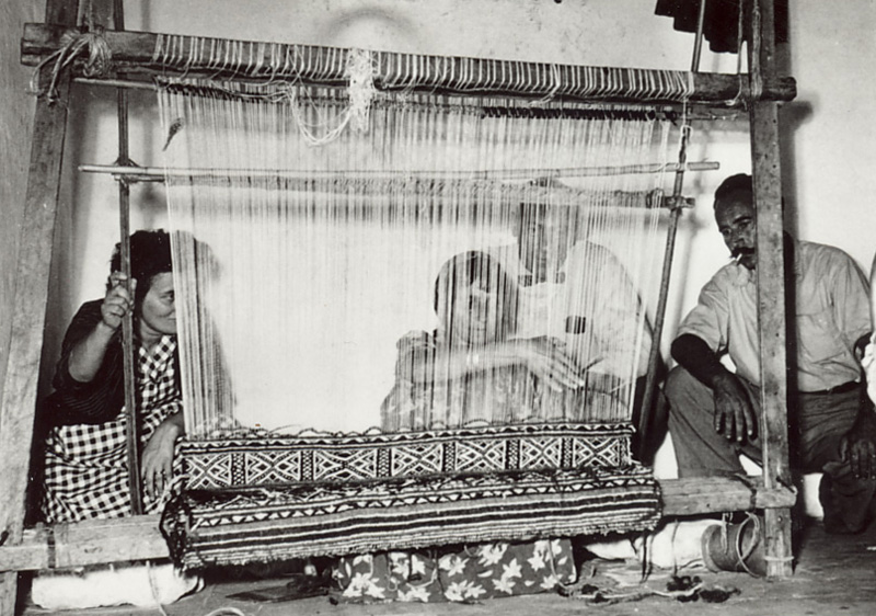 Weaving - Moshav Porat, Econimy of Israel